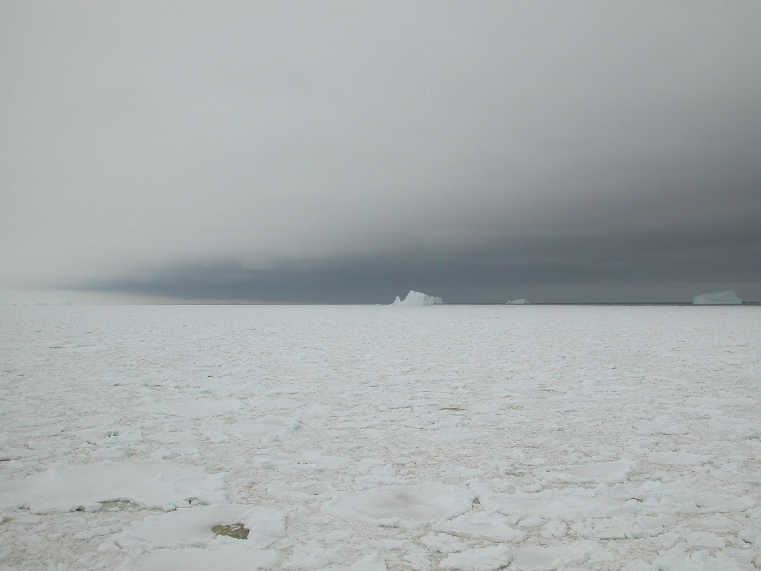 Water sky This picture shows the feature known as a water sky. In an overcast cloudy day sea ice is reflected white on the clouds - so the clouds appear light in colour. In contrast the water is reflected as a dark colour. This dark is the water sky. I took this picture in Antarctica.